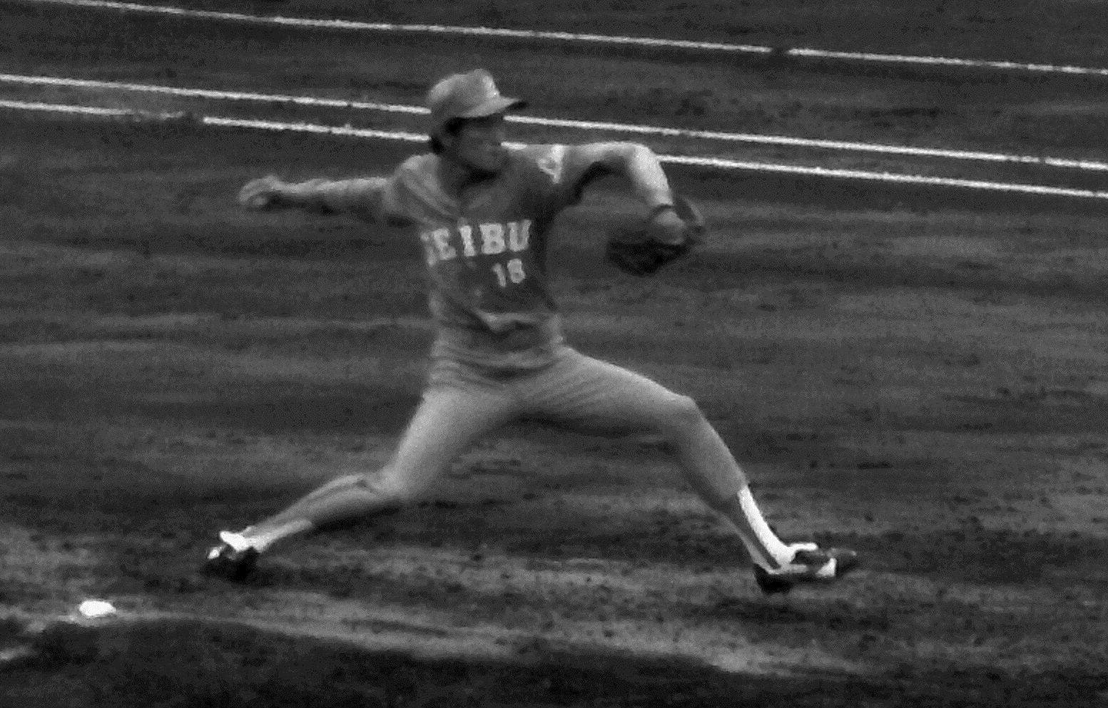 Tai-Yuan Kuo throwing in Kawasaki stadium